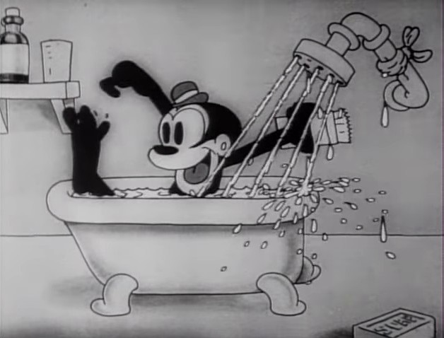 Still frame from the animated cartoon "Sinkin' In The Bathtub" (1930), fallen in the public domain.